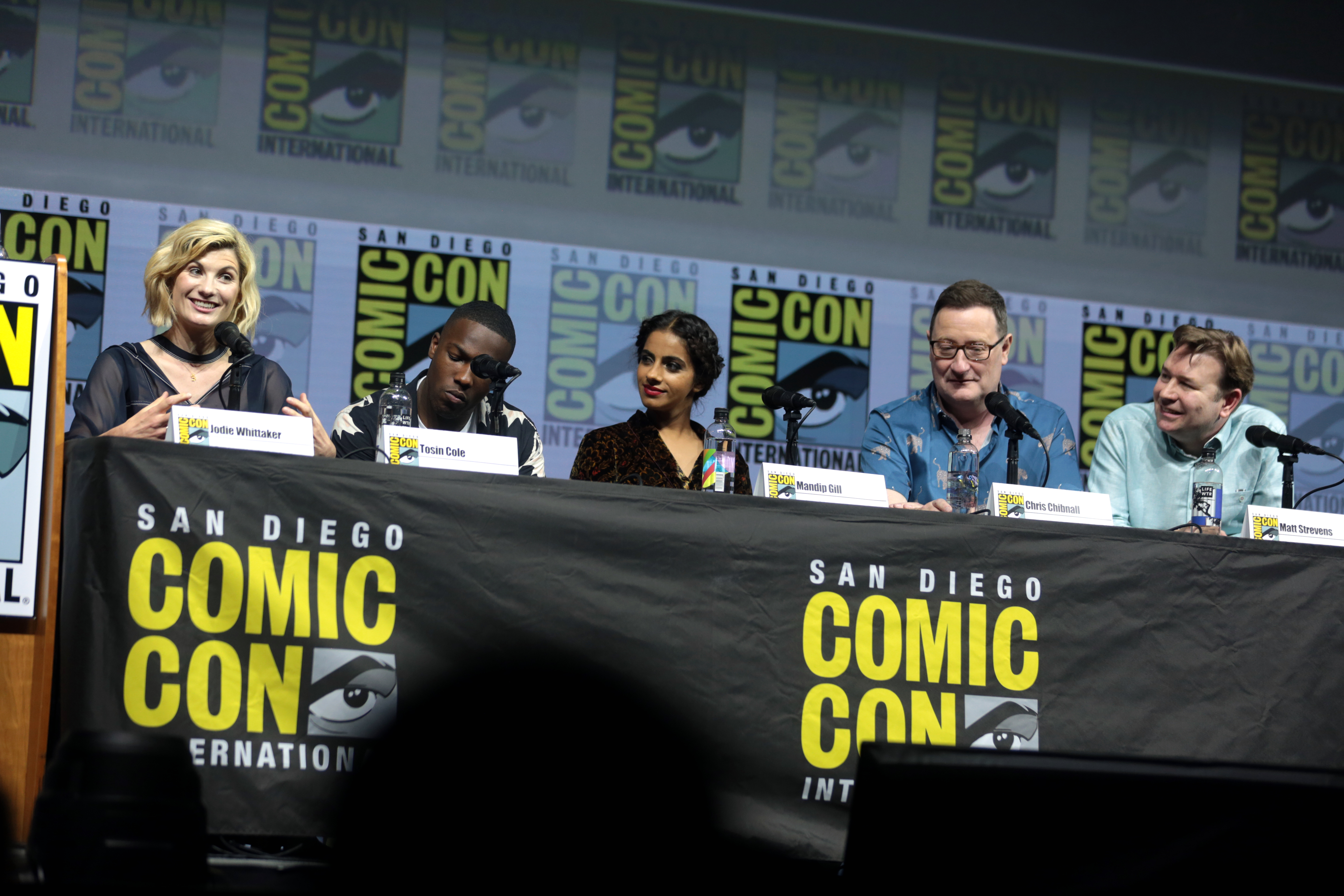 Jodie Whittaker, Tosin Cole, Mandip Gill, Chris Chibnall and Matt Strevens speaking at the 2018 San Diego Comic Con International, for "Doctor Who", at the San Diego Convention Center in San Diego, California.